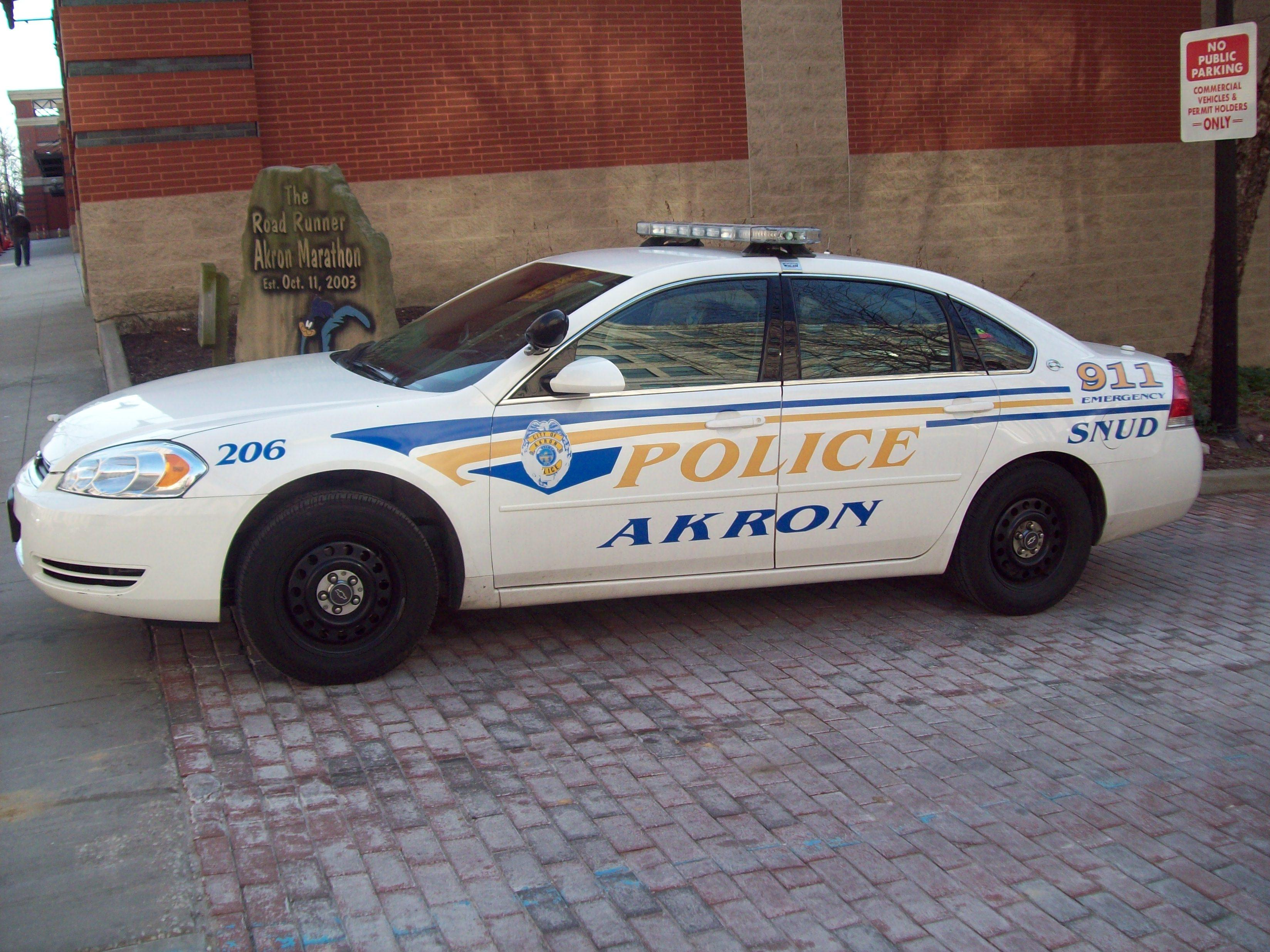 An Akron, Ohio police cruiser taken on Saint Patrick's Day.